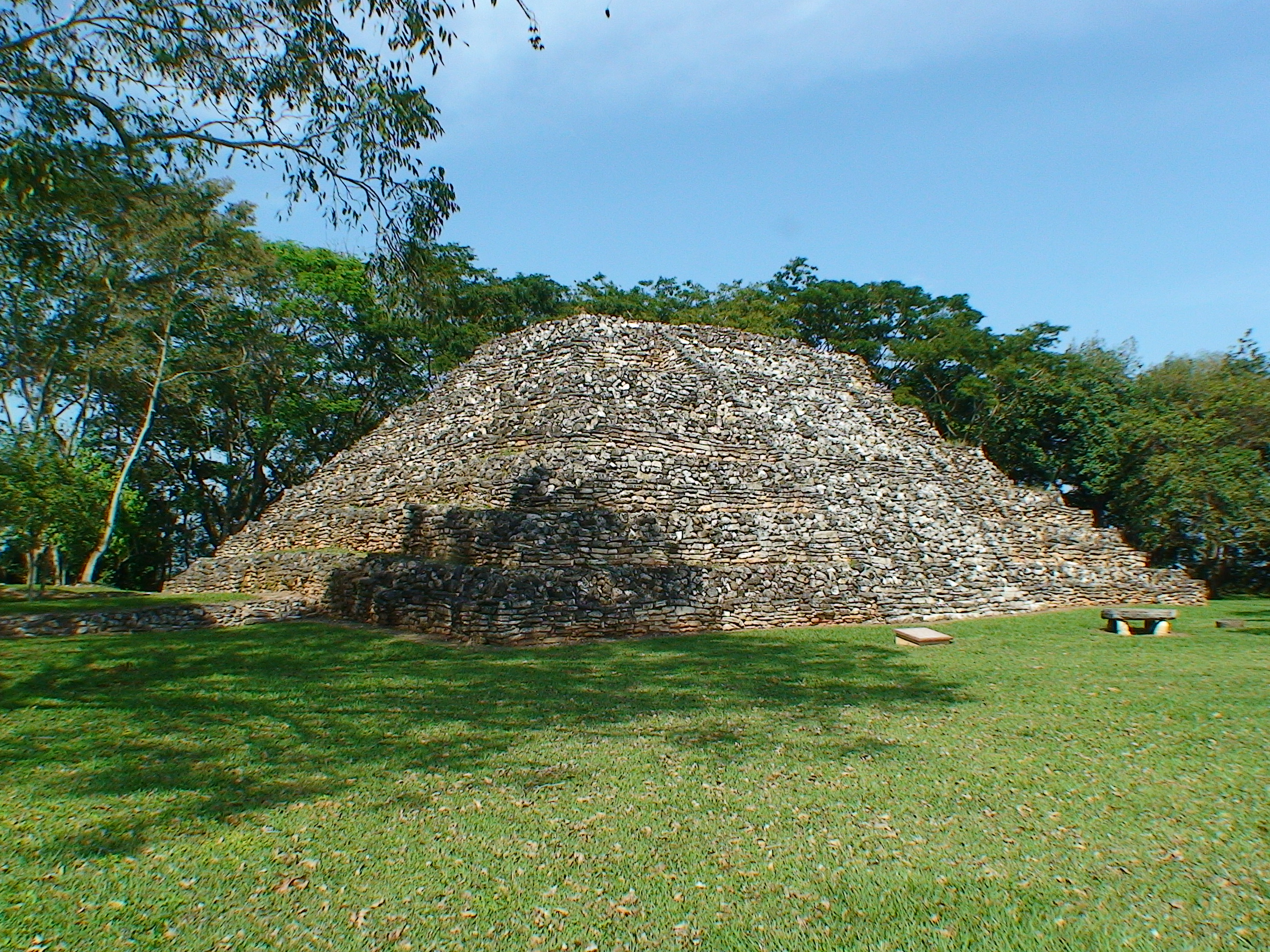 Pomona, Tabasco, Mexico